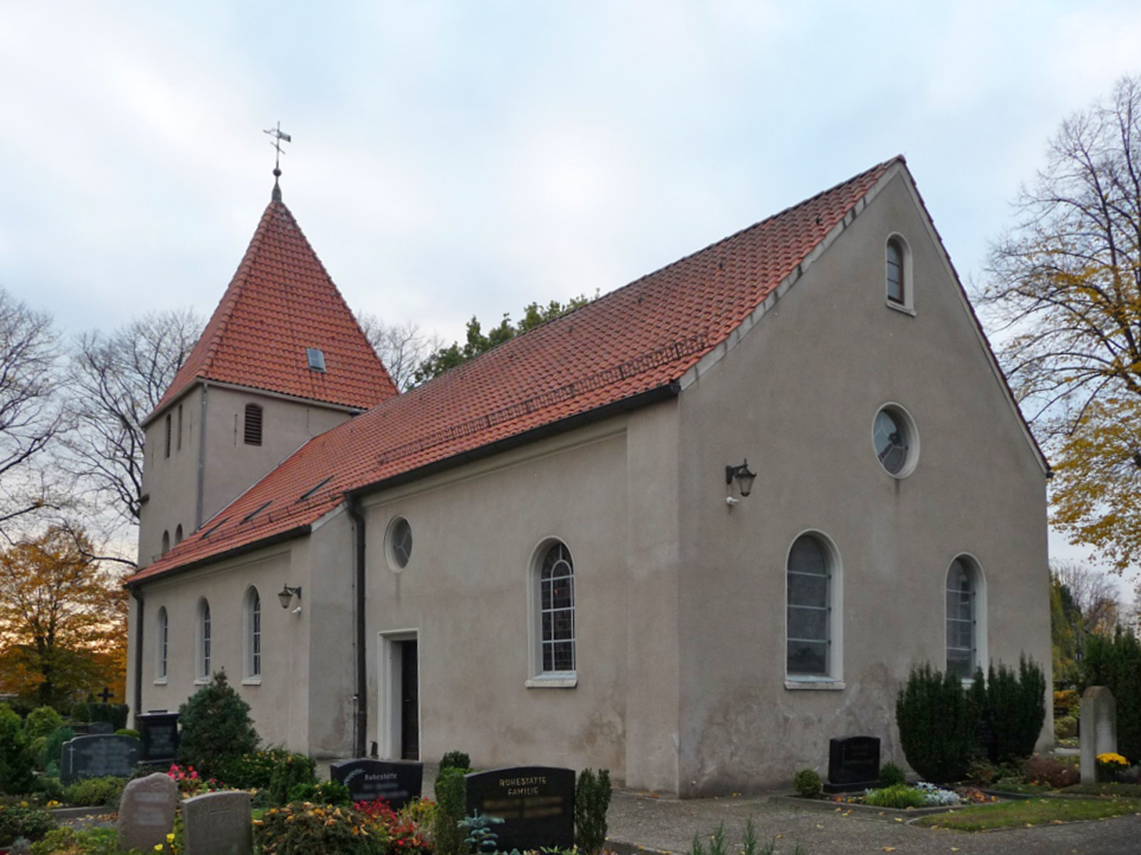 church St. Jacobi in Bremen-Seehausen